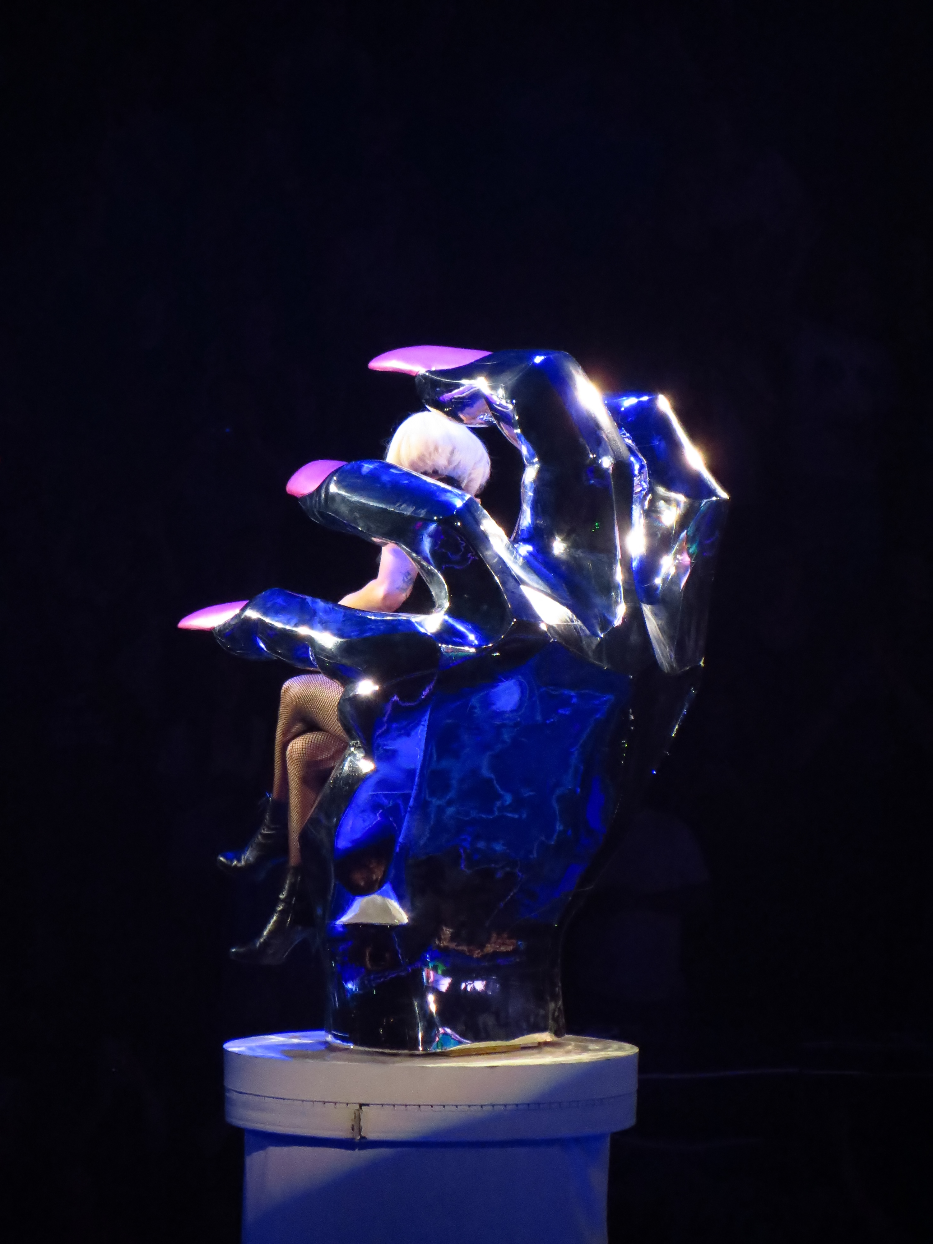 Lady Gaga, ARTPOP Ball Tour, Bell Center, Montréal, 2 July 2014 (55) Gaga performing on ArtRave: The Artpop Ball tour